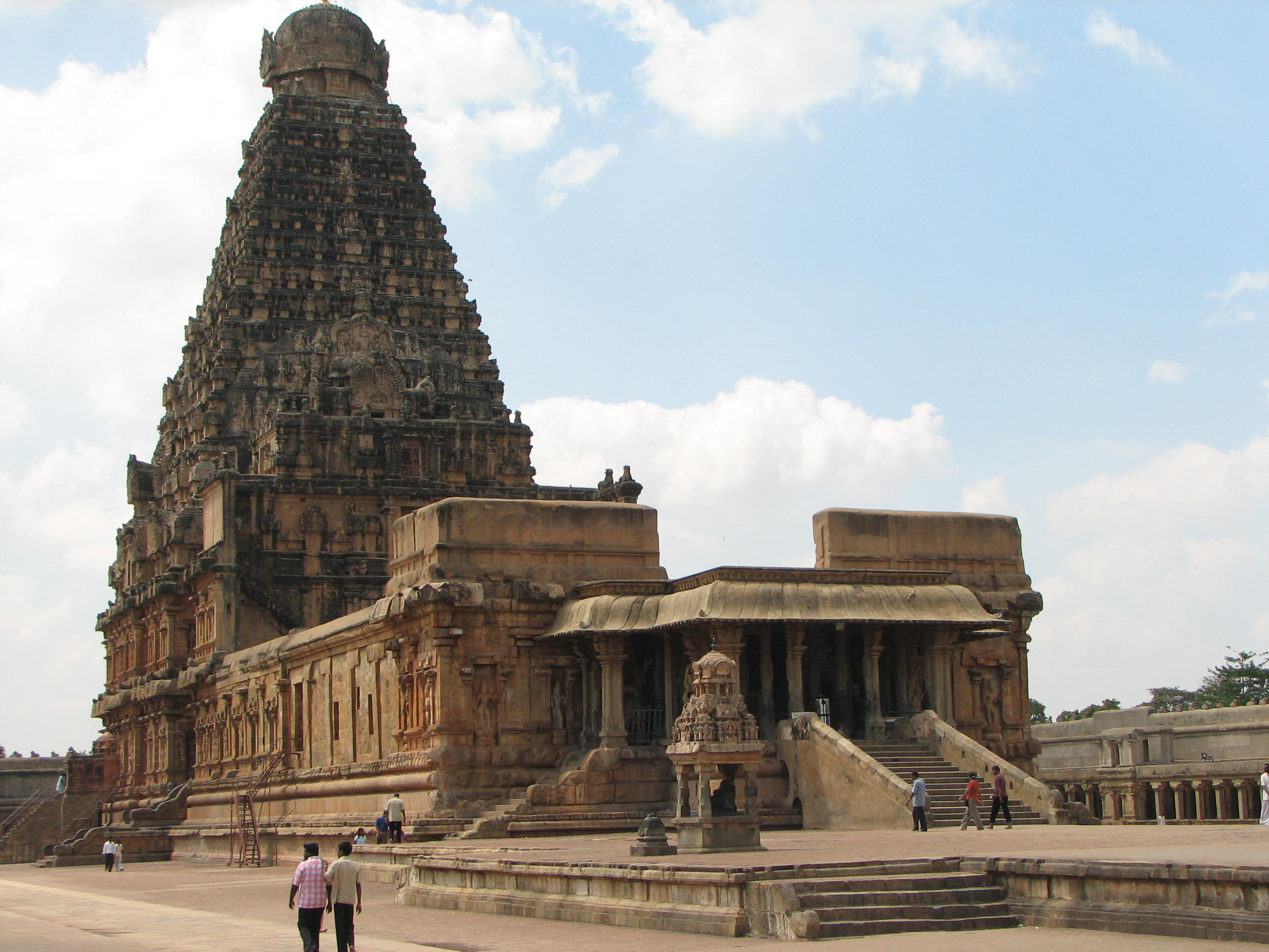 Brihadeeswarar Temple, Thanjavur, India